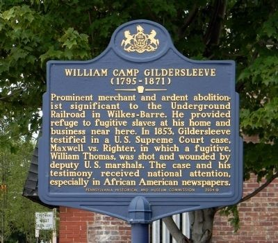 Historical maker to William Camp Gildersleeve